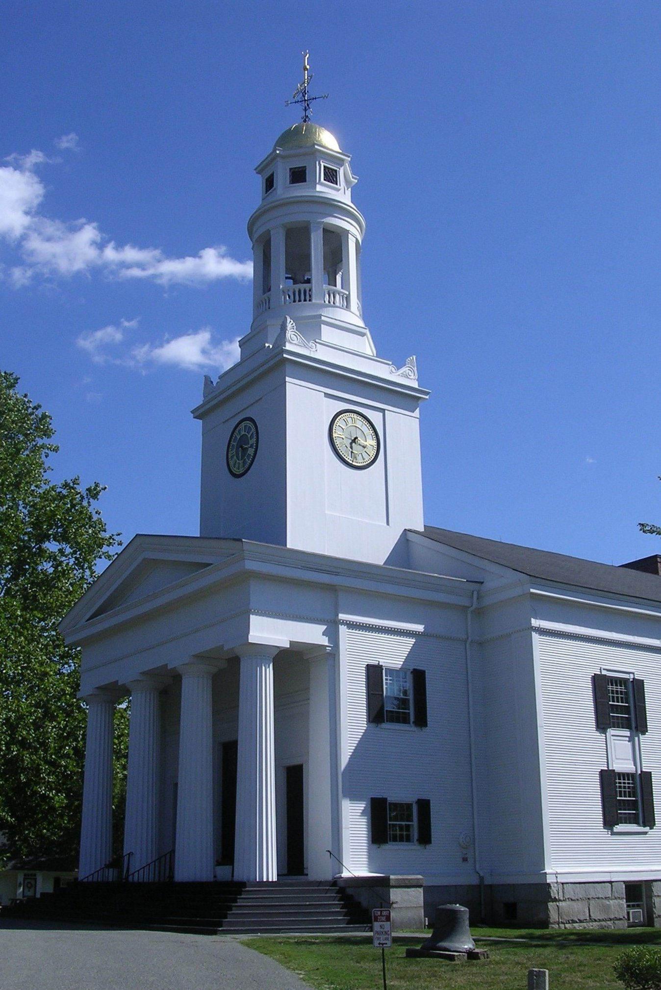 First Parish in Concord Massachusetts